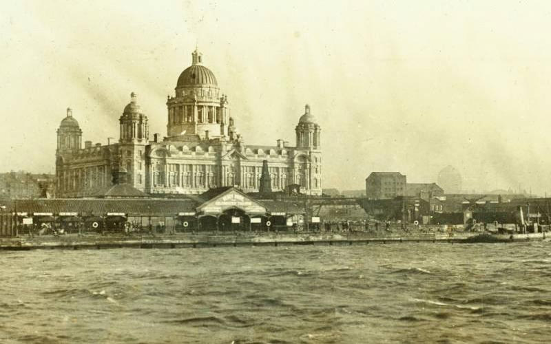 Image showing the Port of Liverpool Building from the River Mersey. Image was taken sometime between 1907 and 1914